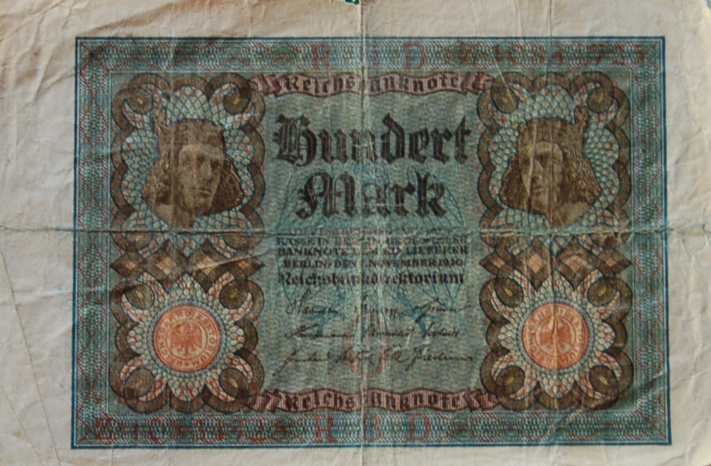 A 100 mark bill from Germany, 1920 (Front).